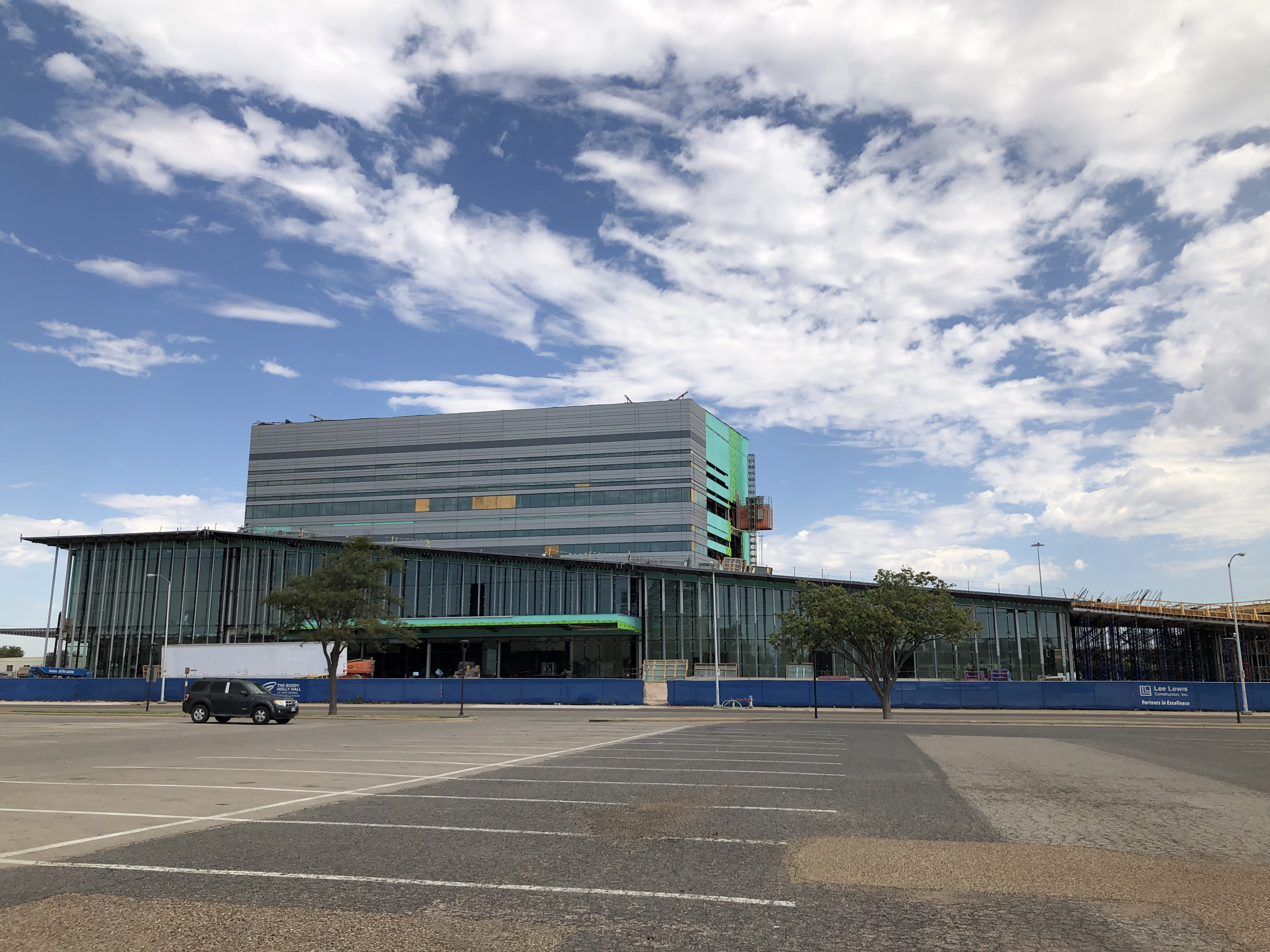 Buddy Holly Hall Under Construction - South View - August 2019